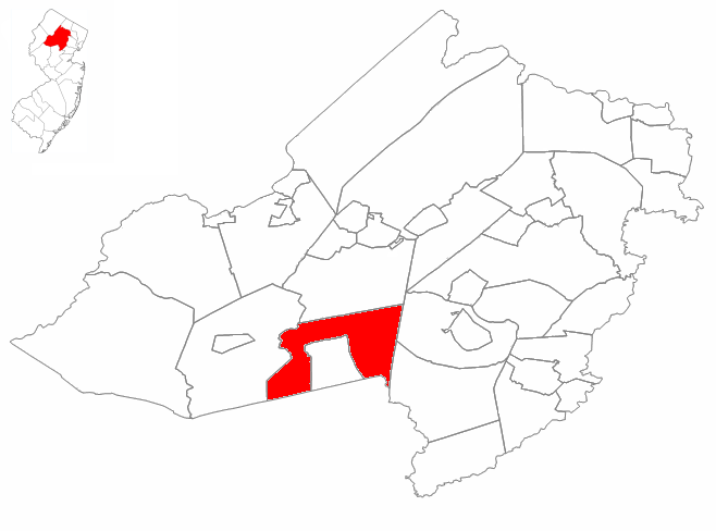 Position of Mendham Township (highlighted in red) in Morris County. Morris County's position in New Jersey is in turn highlighted in red.